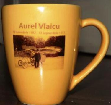 Aurel Vlaicu commemorative mug with a wrong picture